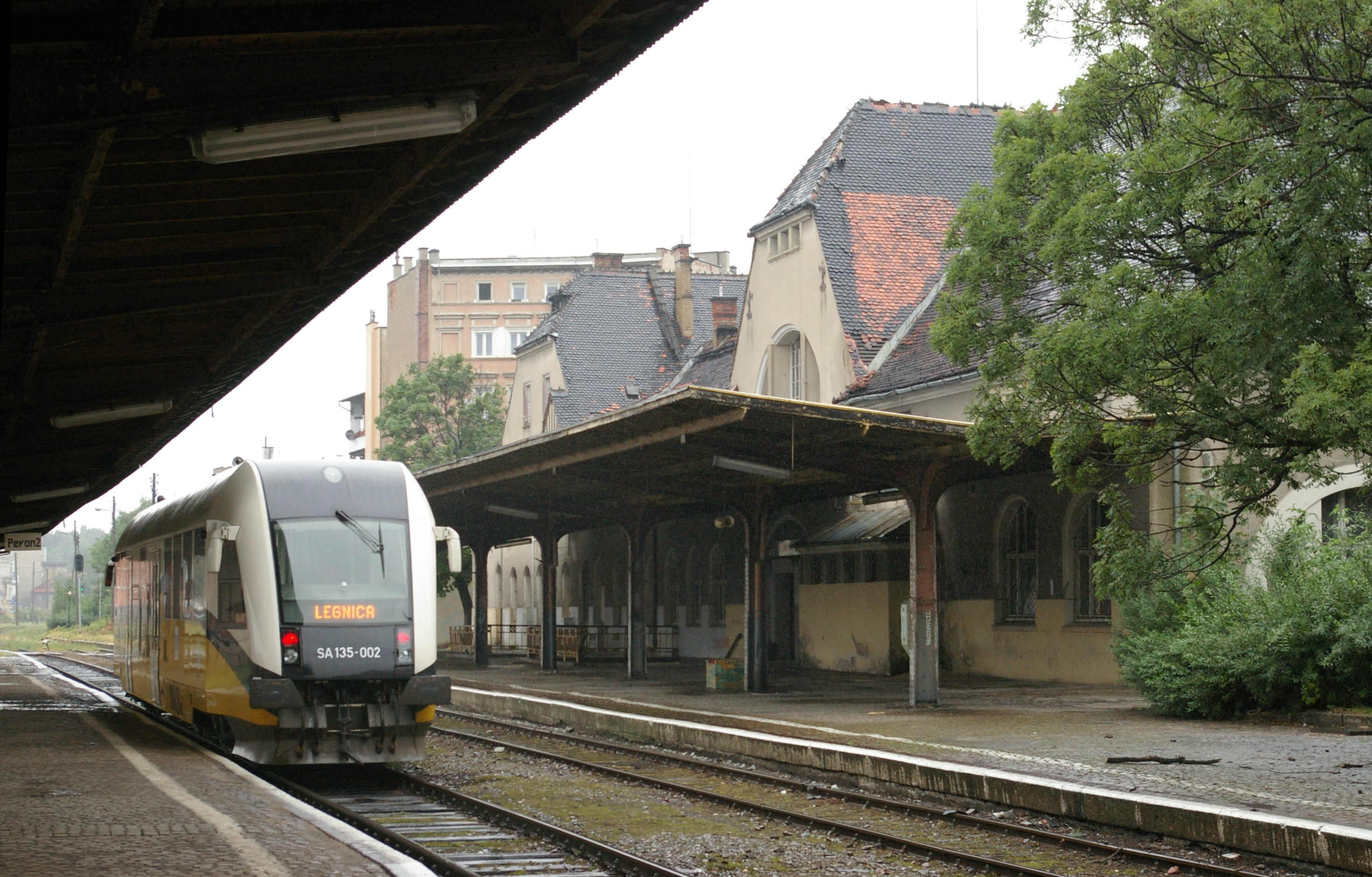 Railway Station "Świdnica Miasto" in Świdnica, Poland